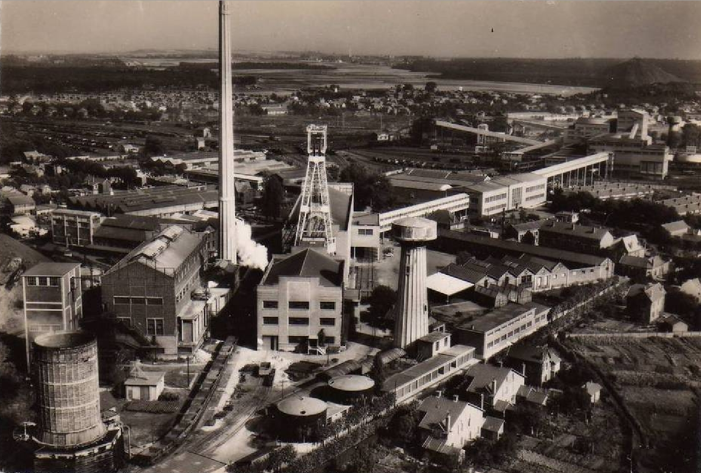 Pit of the Compagnie des mines d'Ostricourt, Nord-Pas-de-Calais, France.